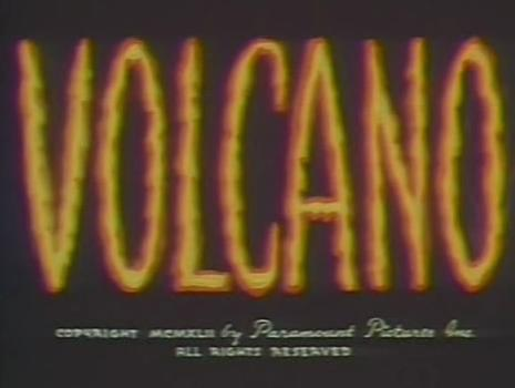 Screenshot of the animated short Volcano.